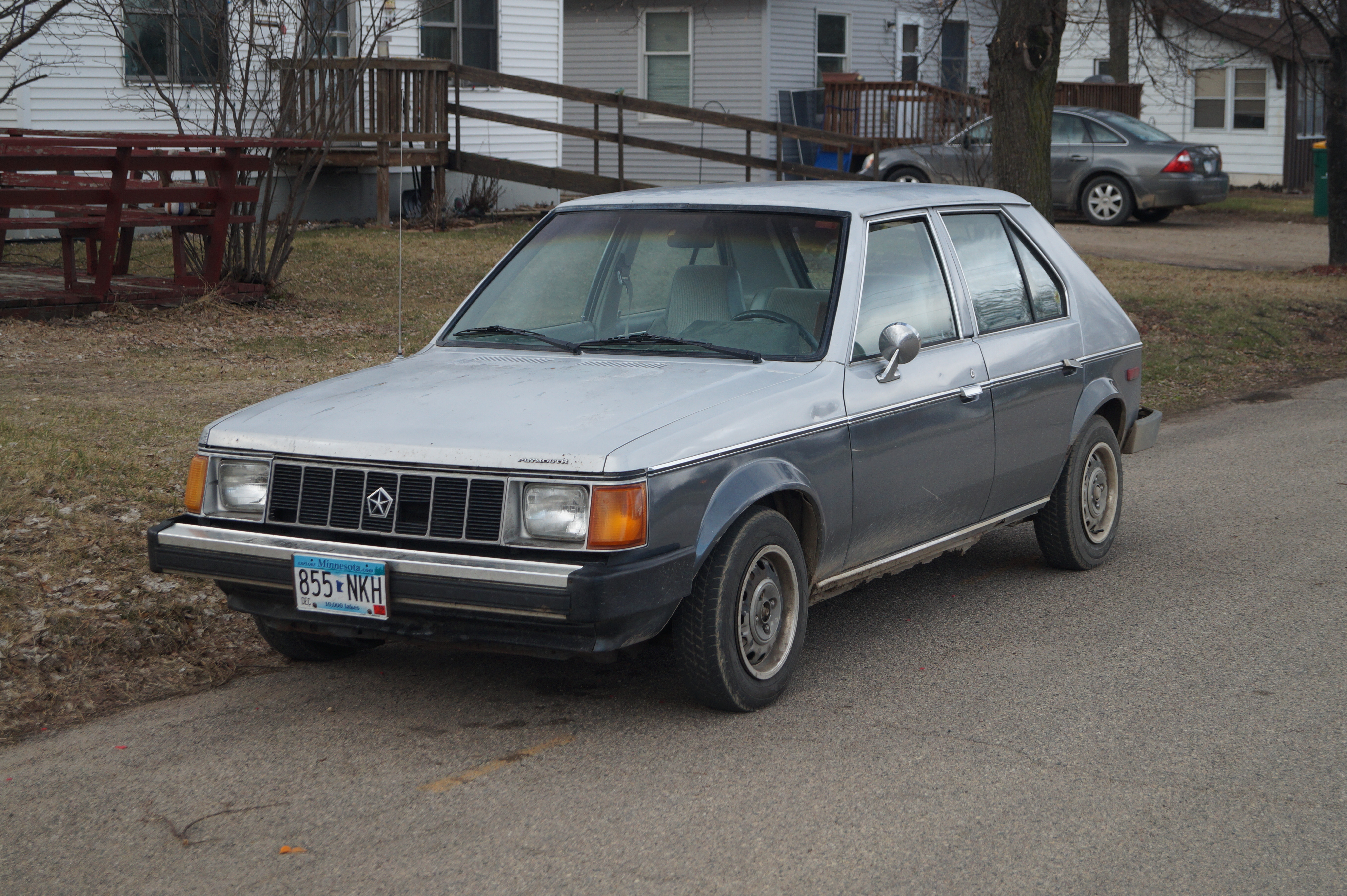 Click here for more car pictures at my Flickr site.